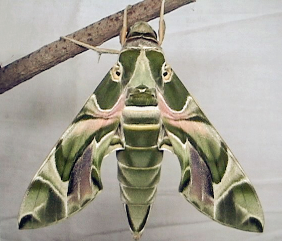 Oleander Hawkmoth (Daphis nerii) upperside